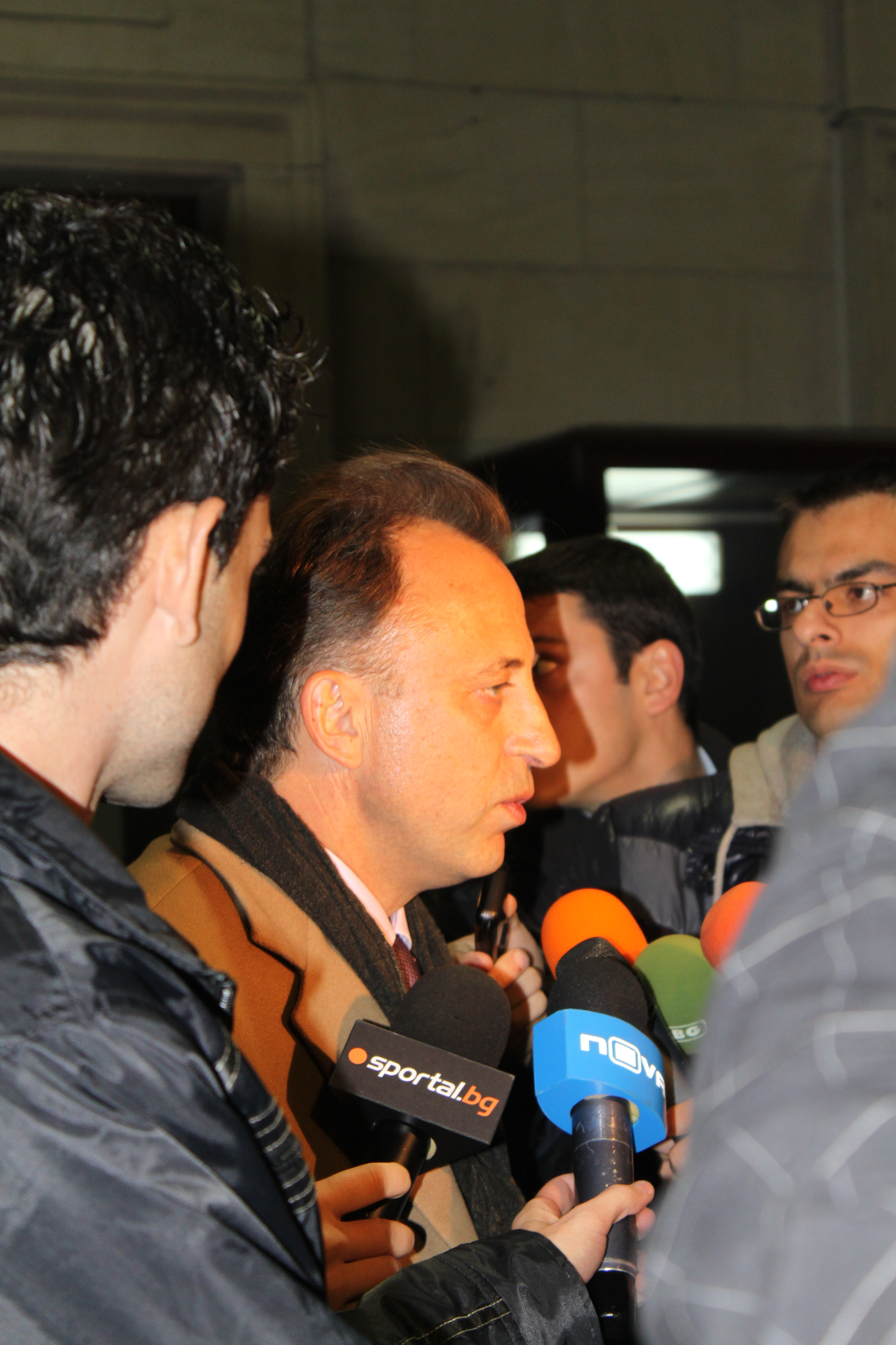 Venzi Zhivkov - CSKA Sofia manager